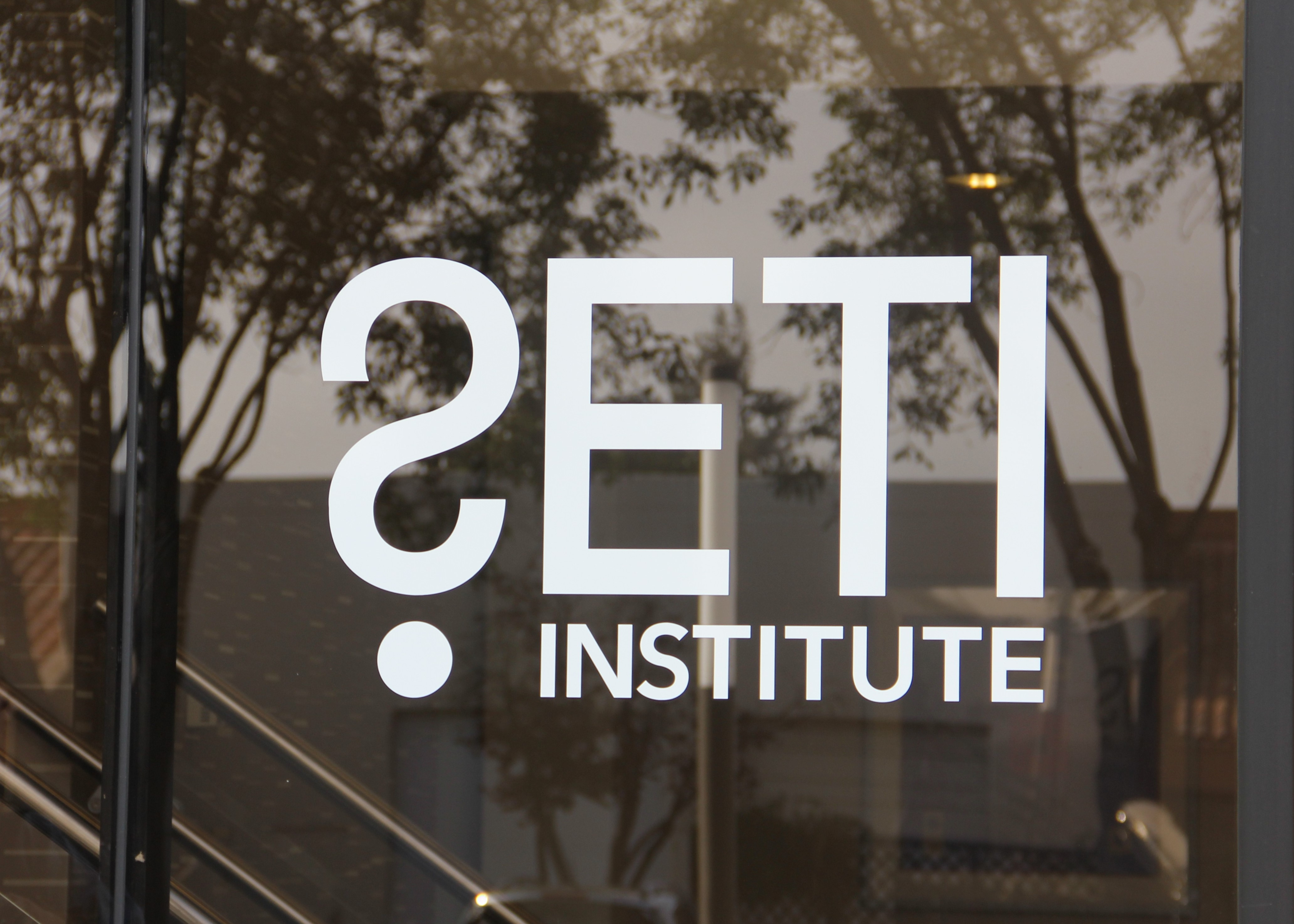 SETI Institute entrance, 189 Bernardo Ave, Suite 200, Mountain View, CA 94043.